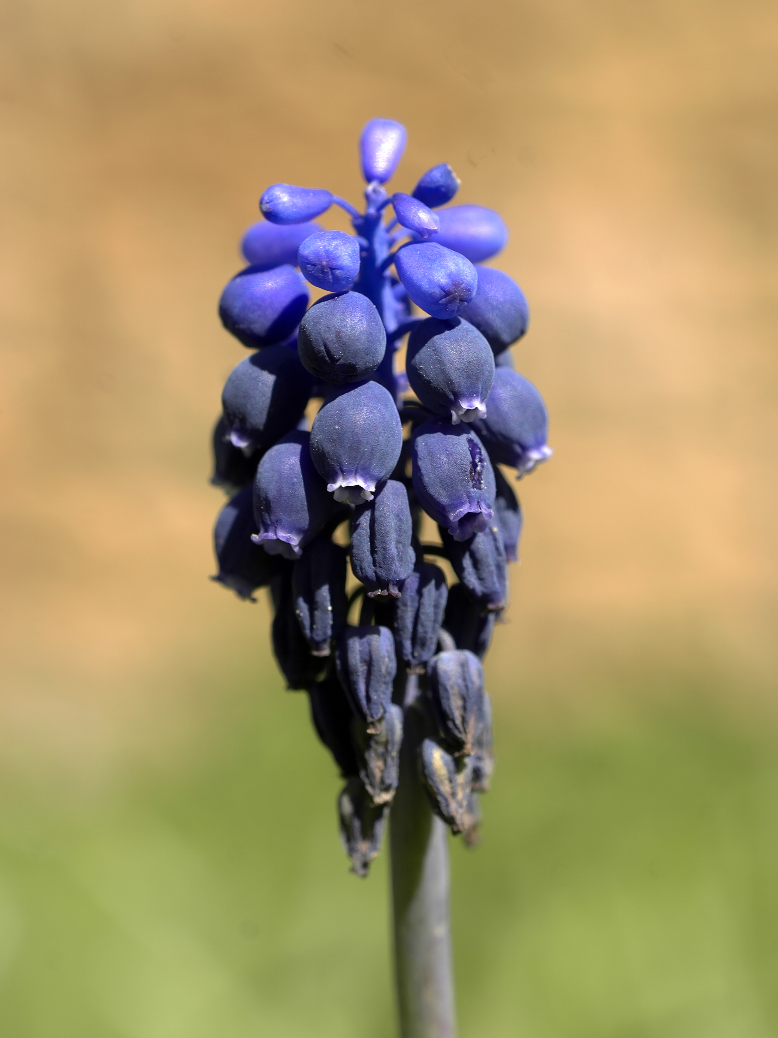 near Horta de Sant Joan, Catalonia, Spain